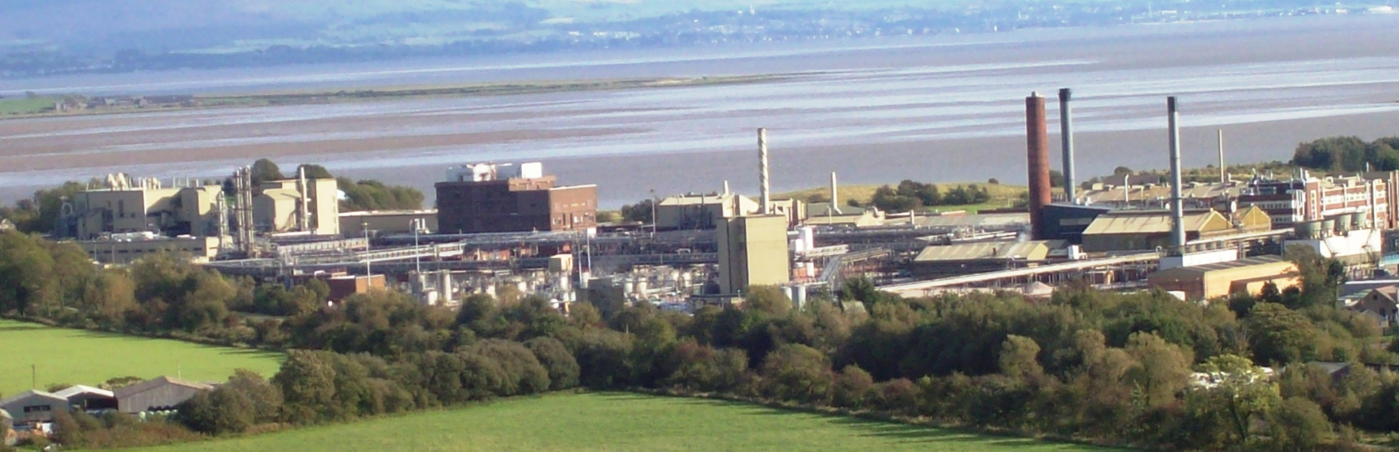 GlaxoSmithKline factory in Ulverston, Cumbria, England.